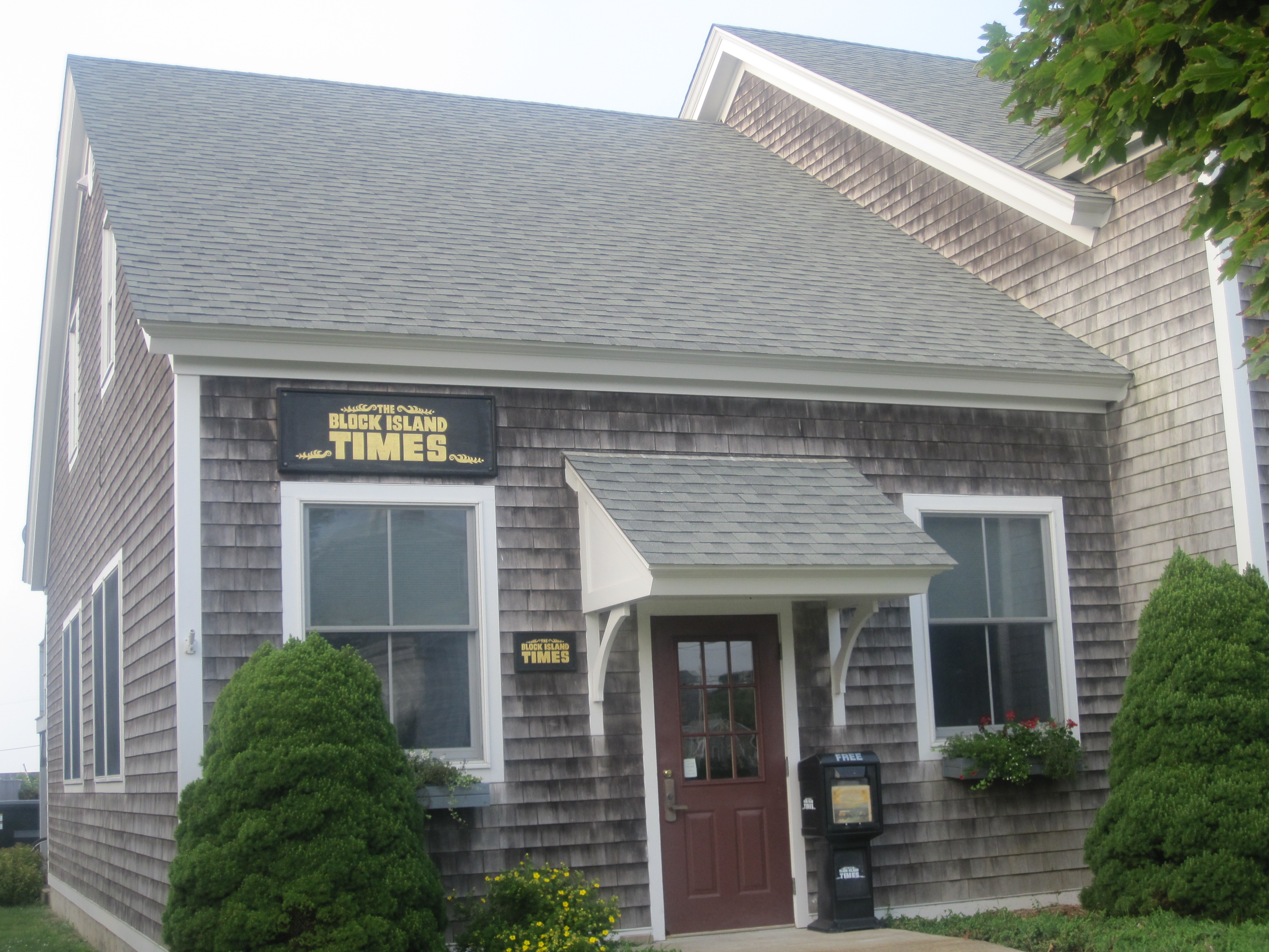 Block Island Times at Block Island, RI